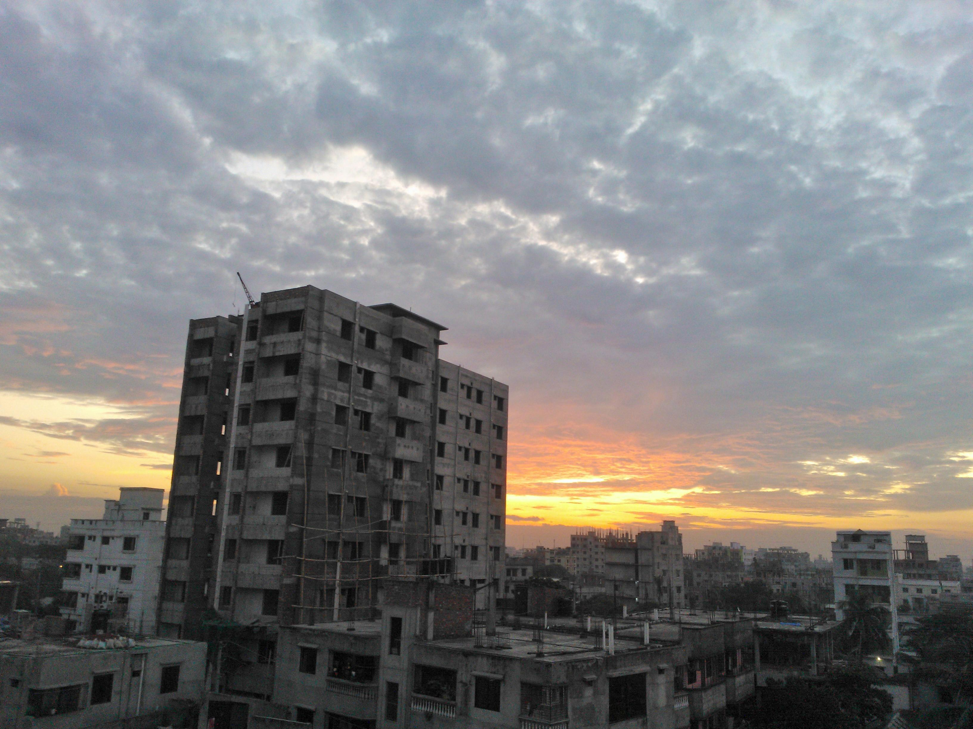 Sunrise in Dhaka.